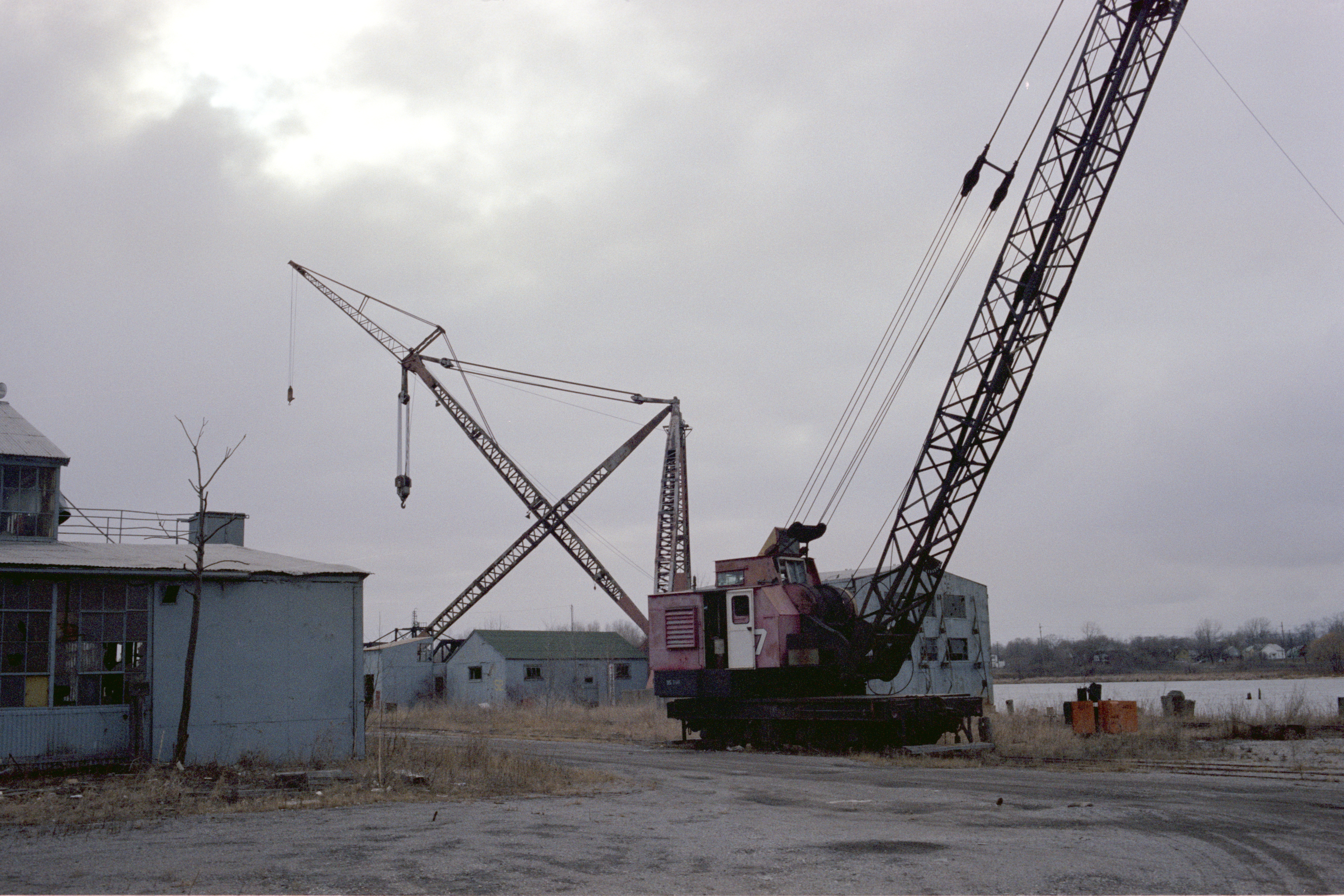 Defoe Shipbuilding Crane and Saginaw River 1981